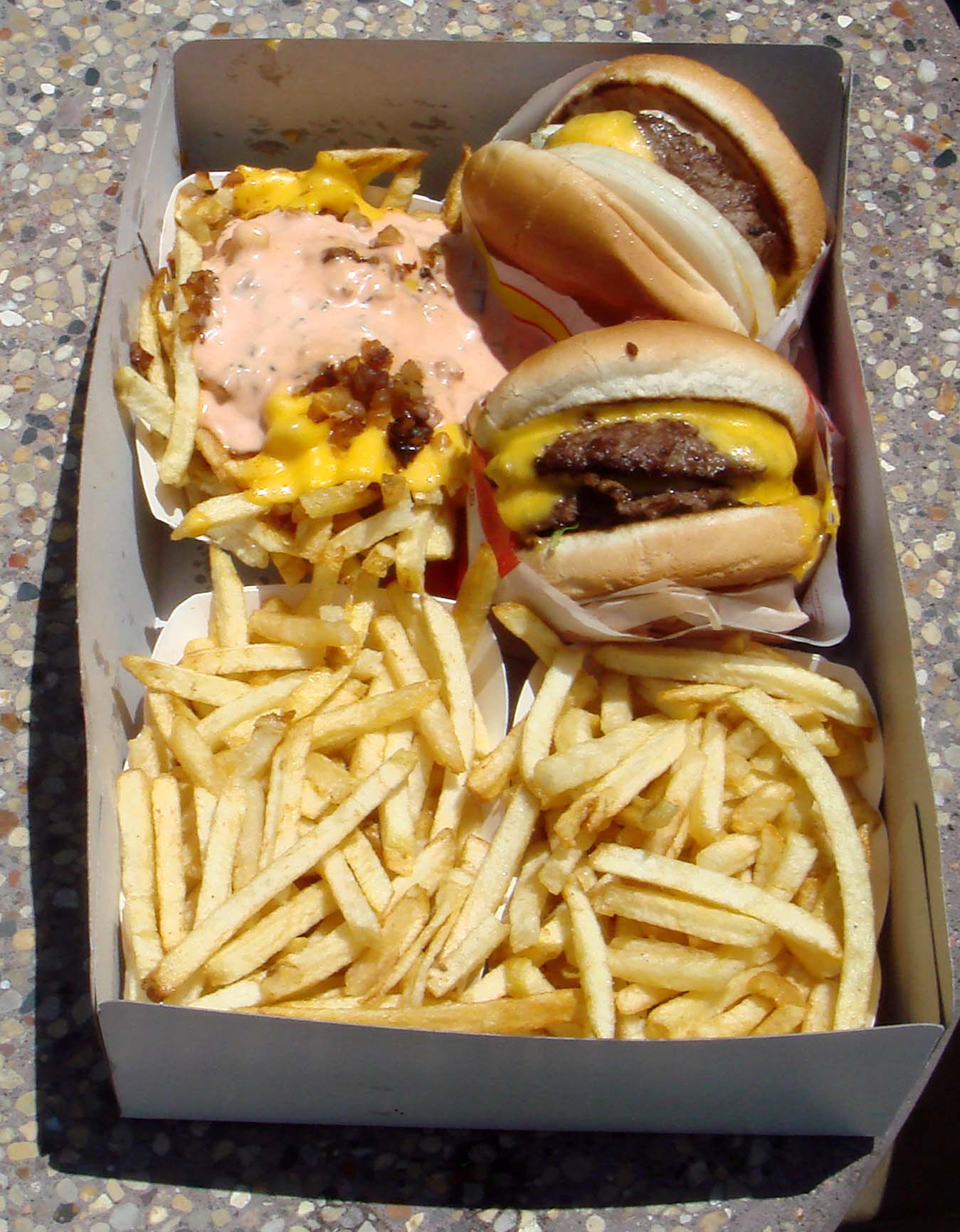 A typical selection of food from Southern California's famous In-N-Out Burger chain, taken at a drive-in location (no indoor seating) in Walnut, California. The items, clockwise from the top-right, are a Cheeseburger with onions, a Double-Double without onions, two orders of regular fries and an order of fries made "Animal Style".